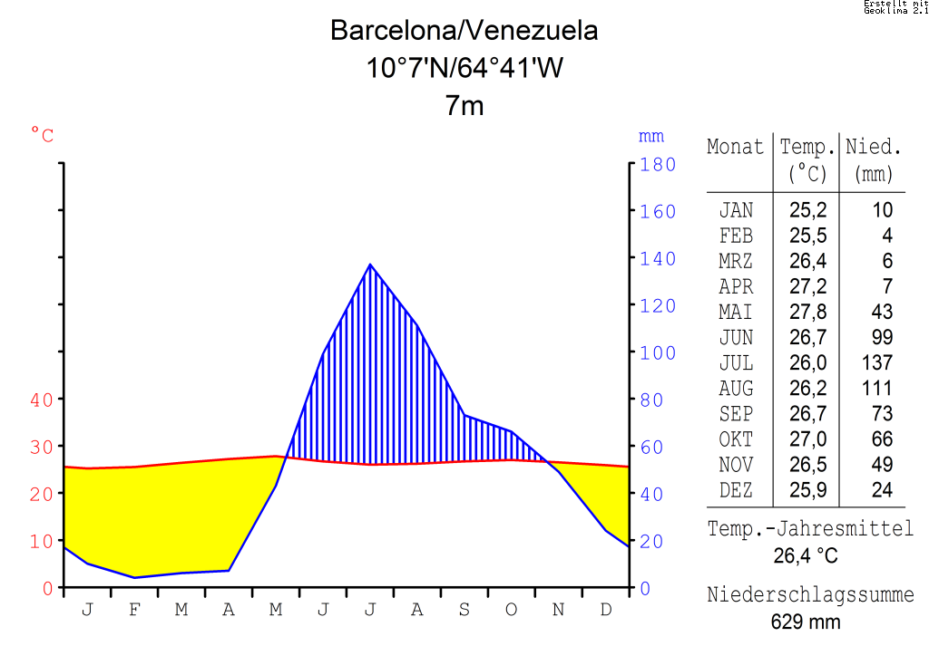 climate chart in the format by Walther and Lieth, metric, °Celsisus and millimeters, made with Geoklima 2.1 DateOctober 2006SourceSoftware: Geoklima 2.1 Website GeoklimaAuthorHedwig in WashingtonPermission (Reusing this file) Own work, attribution required (Multi-license with GFDL and Creative Commons CC-BY 2.5)